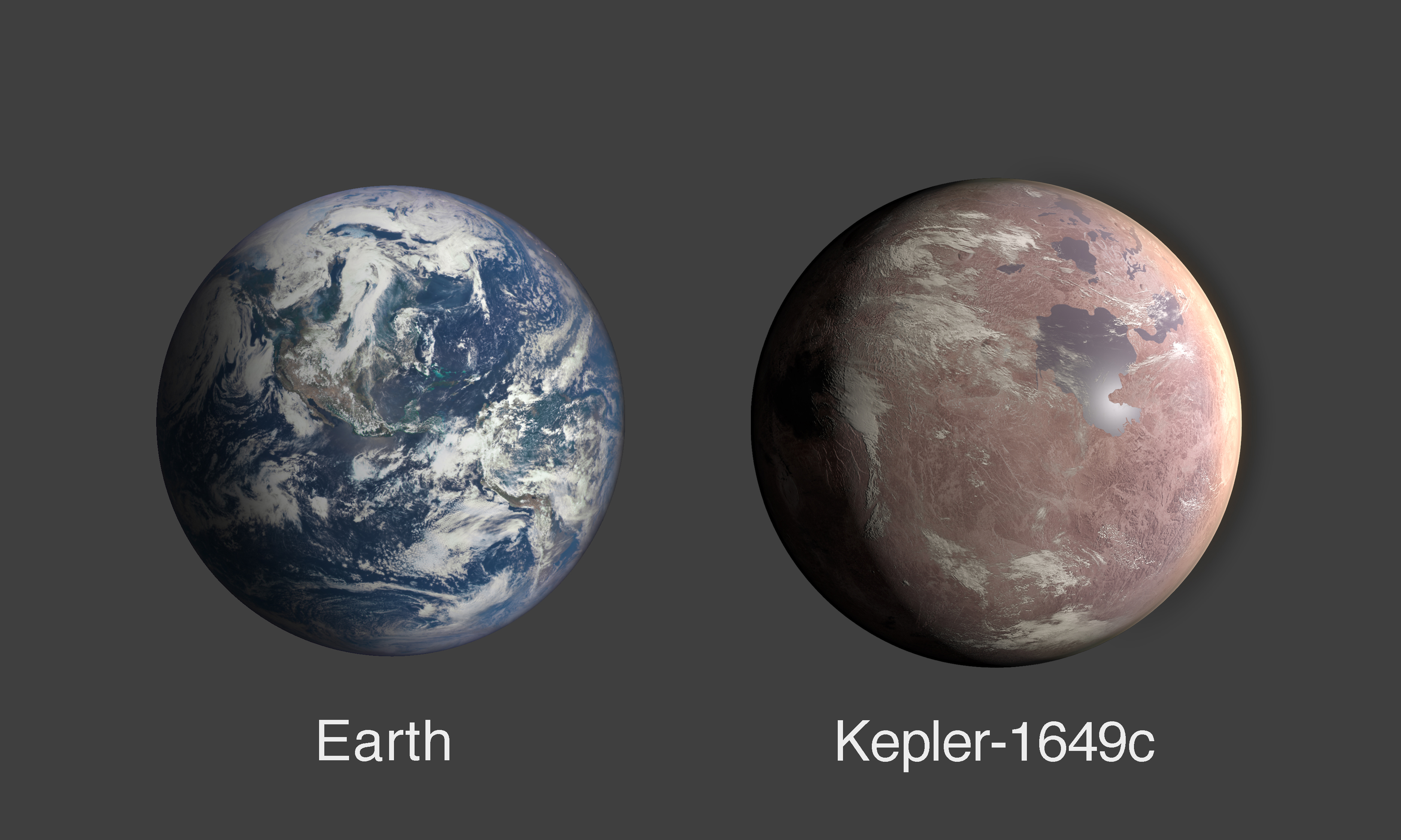 PIA23774: Comparing the Size of Exoplanet Kepler-1649c and Earth (Illustration) This graphic compares the size of Earth and Kepler-1649c, an exoplanet only 1.06 times larger than Earth by radius. For more information on the Kepler mission, visit For more information about exoplanets, visit